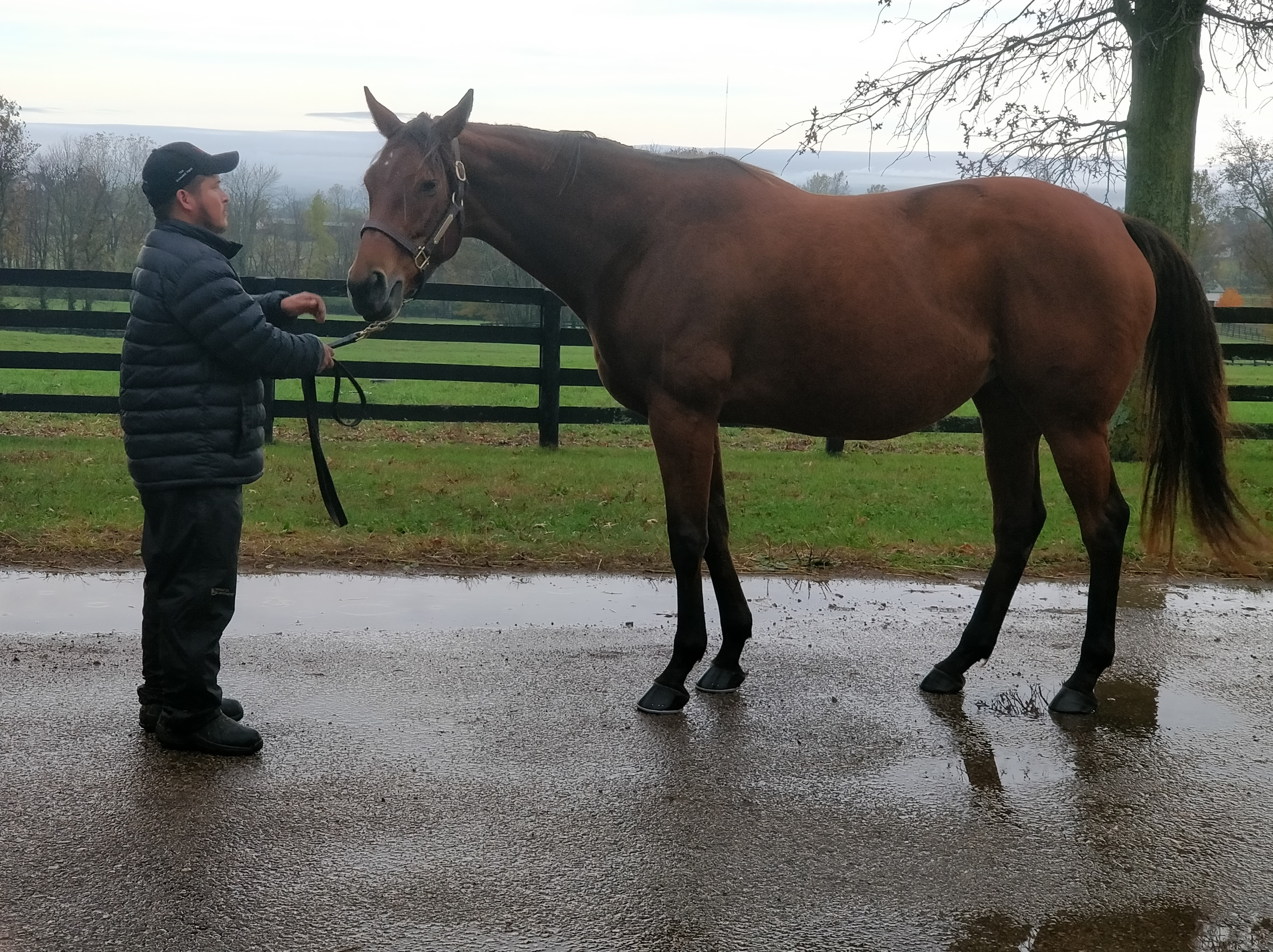 Beholder as a Broodmare - Pregnant with an Uncle Mo baby I believe. Feel free to use this photo however you like, just attribute . Thanks!